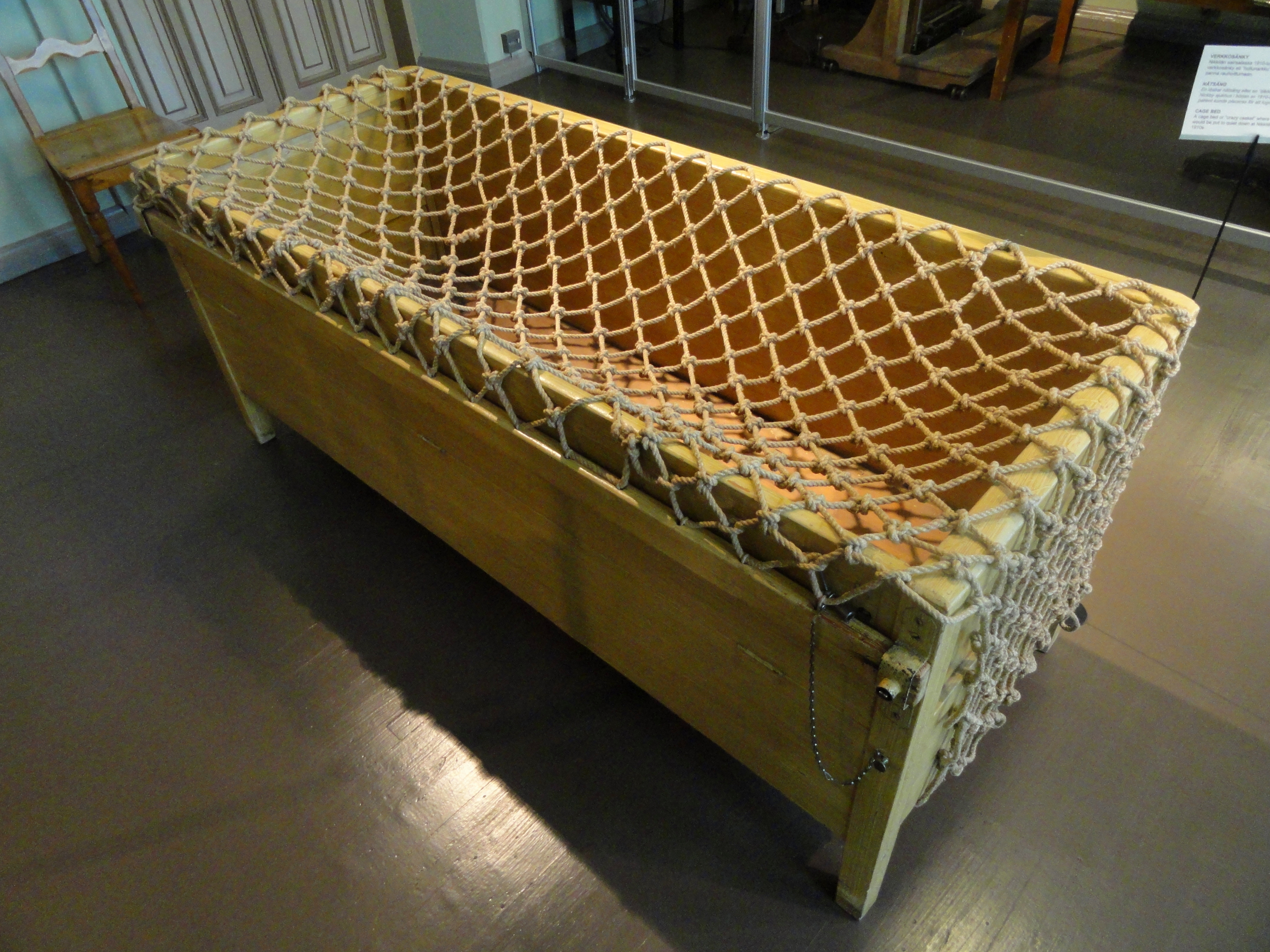 Exhibit in the Arppeanum, Helsinki, Finland.